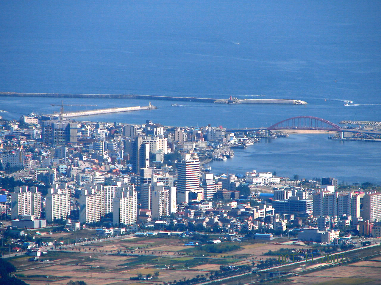 Sokcho from Mount Gwongeumseong in Seoraksan National Park